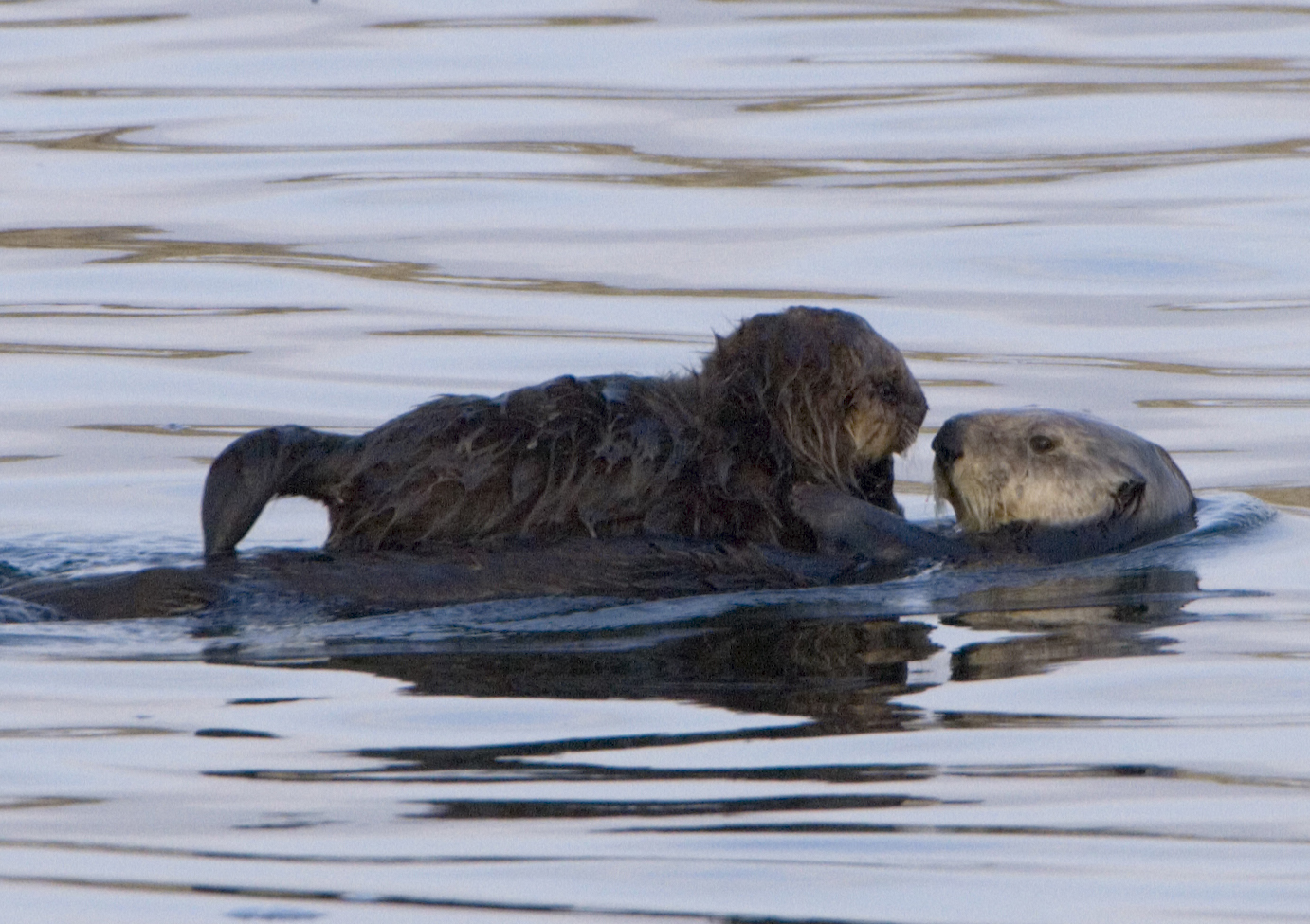 Sea otters, Mother with pup, in Morro Bay channel, near Morro Rock, Morro Bay, CA Tues. 29may2007 - first decent waves in weeks - Canon 20D with 300mm IS f/2.8 lens with 2X II tele-extender for 600mm, on a sturdy tripod - Photo by Mike Baird sea otter, mammal, 29may2007, mikebaird, "morro rock"